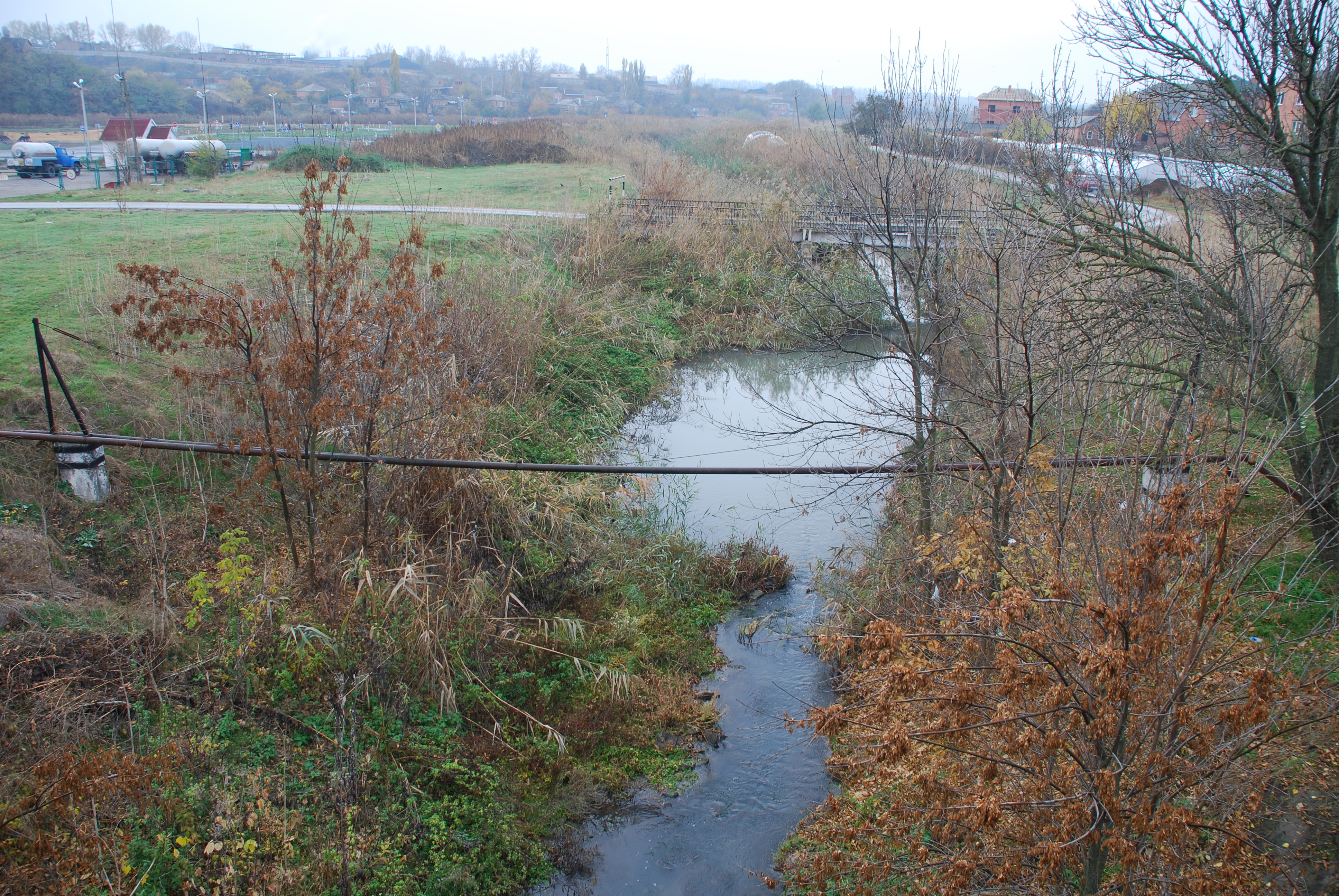 Mokry Chaltyr River in Chaltyr.